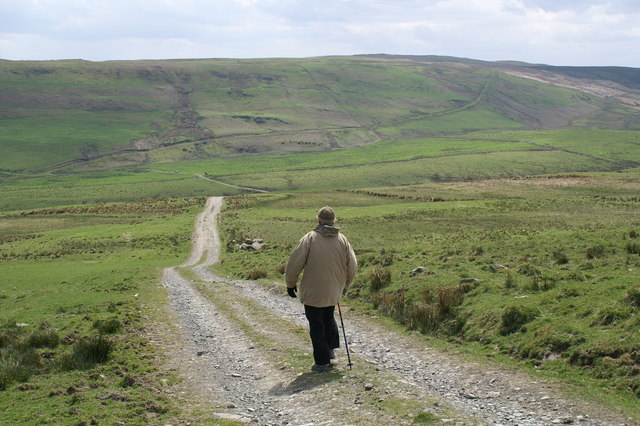 Track near Mynydd Dwyriw. This track descends to a ford below Esgair Cwmowen